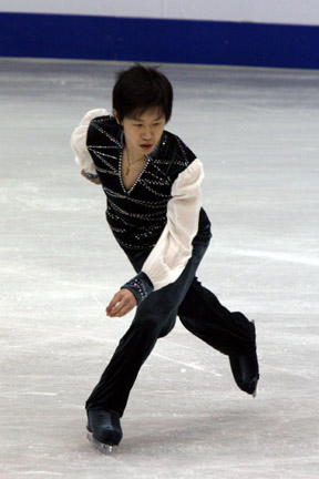 2008 World Junior Figure Skating Championships - Guan Jinlin